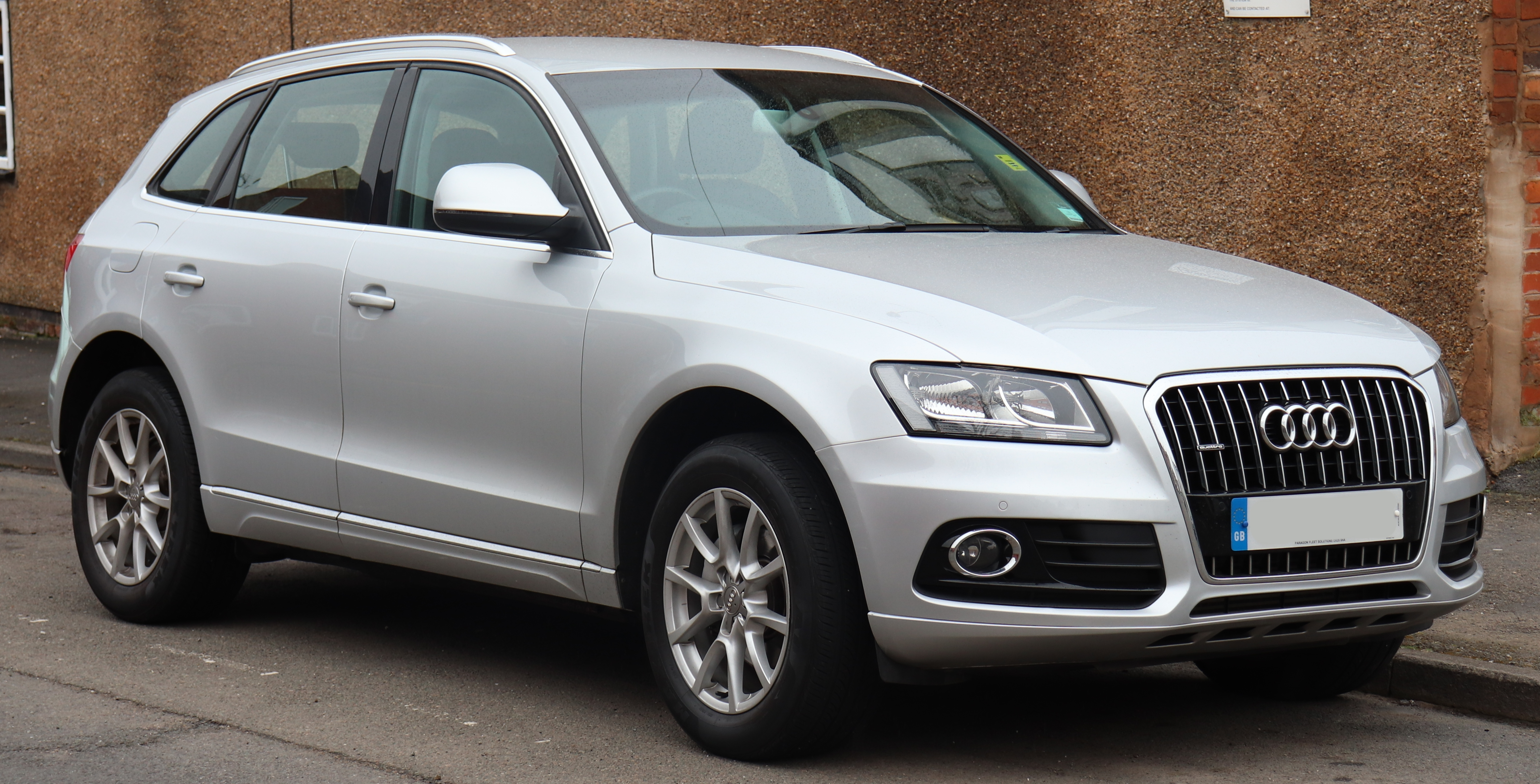 2014 Audi Q5 SE TDi Quattro Automatic 2.0 Front Taken in Warwick